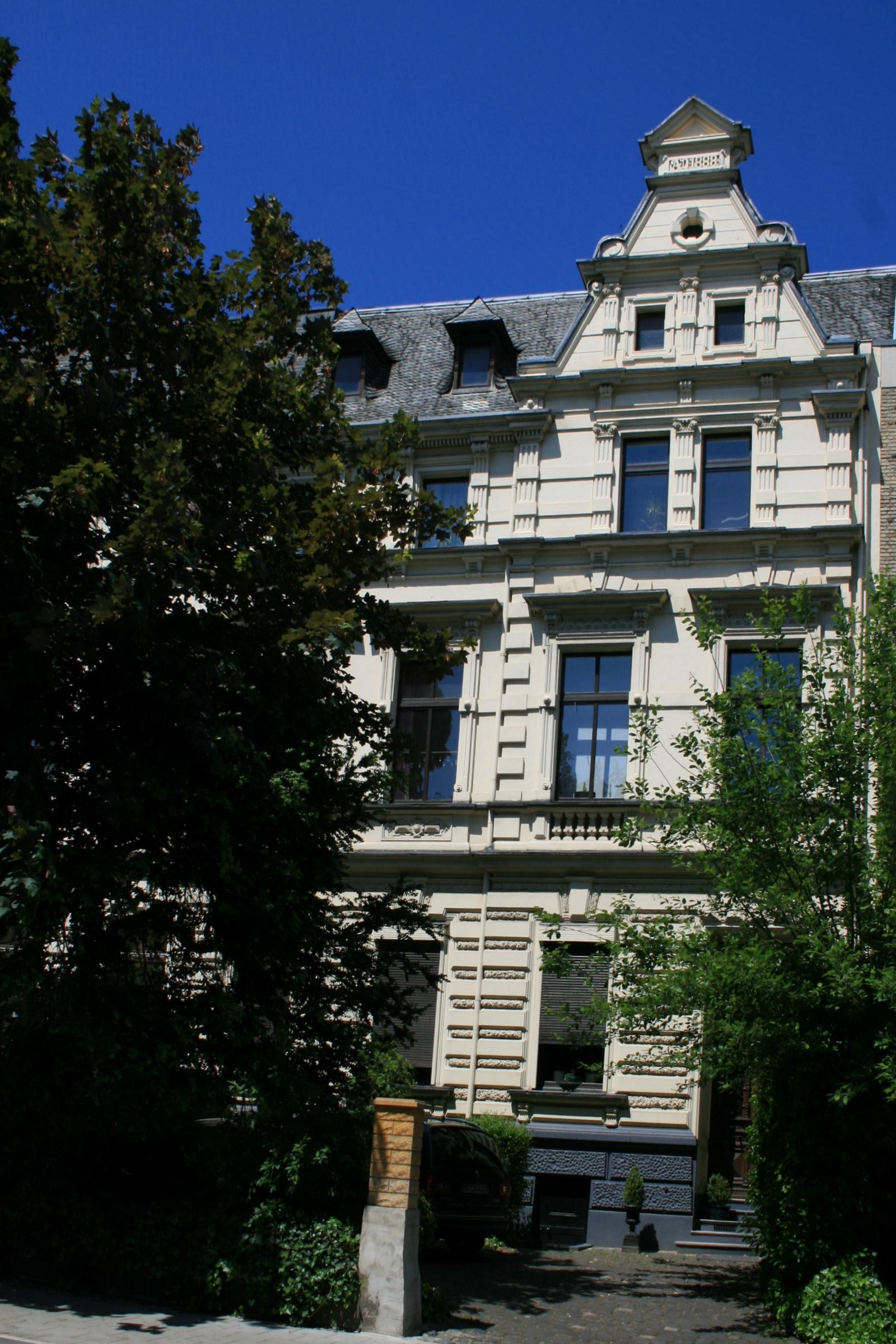 Cultural heritage monument No. R 017 in Mönchengladbach